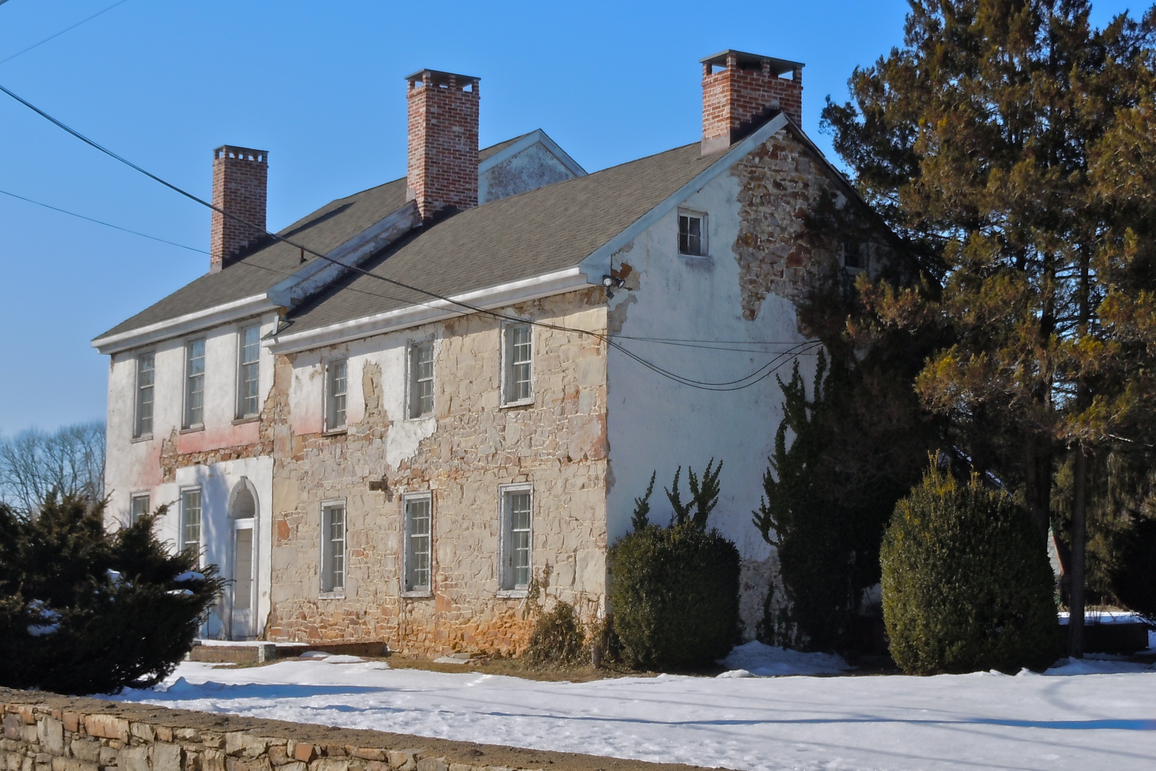 West Whiteland Inn on the NRHP since August 2, 1984. At 609 West Lincoln Highway (US 30) near Exton, West Whiteland Township, Chester County, Pennsylvania.